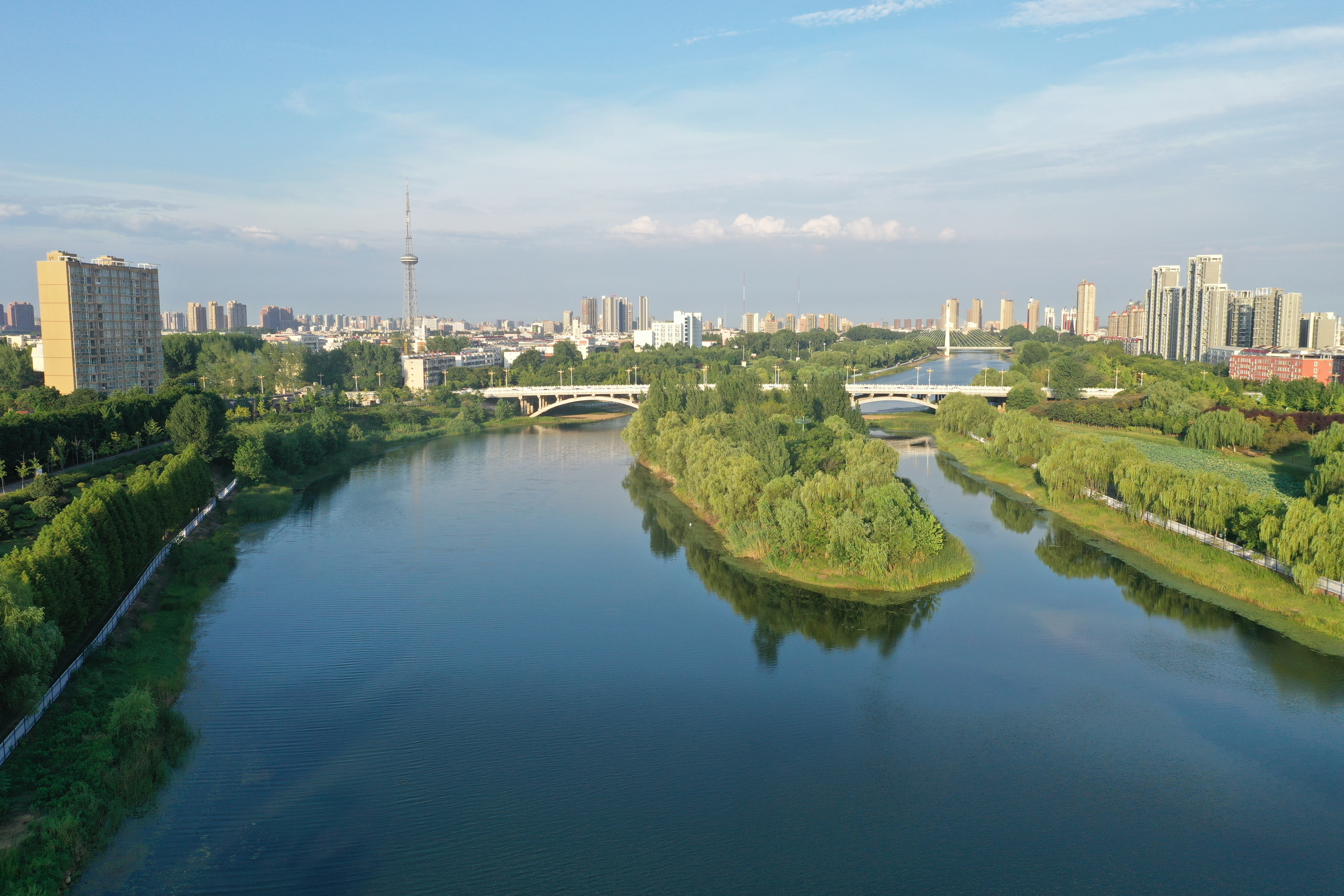 Shooting by DJI Mavic 2 Pro